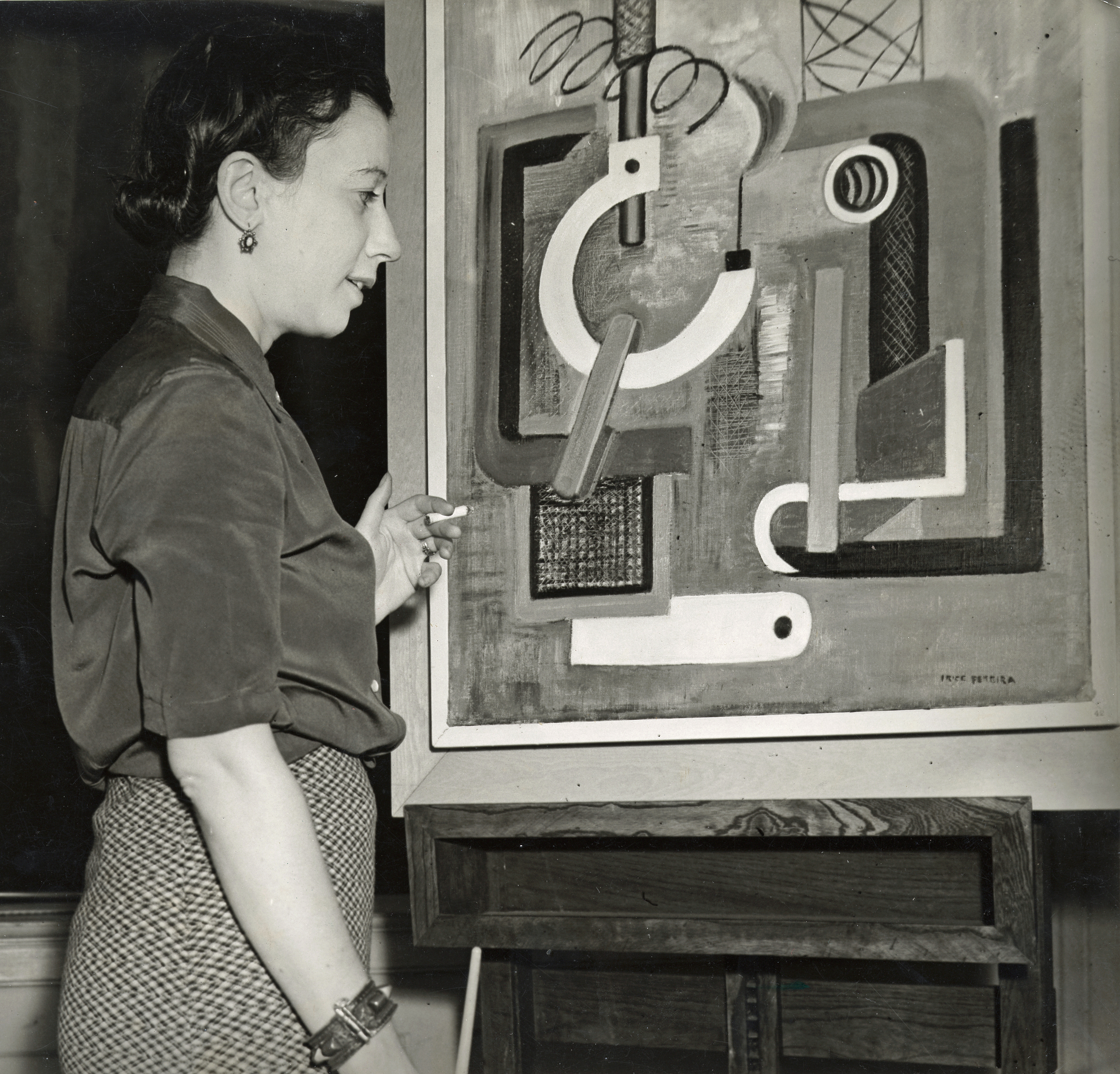 Pereira with painting.Identification on verso (handwritten and stamped): Federal Art Project W.P.A.; Photographic Division; 235 East 42nd Street; New York CityI. Rice Pererria; WPA Artist Chosen for World's Fair; Date: 8/16/38; Negative No.: 3229-4; Photographer: Mipaas.